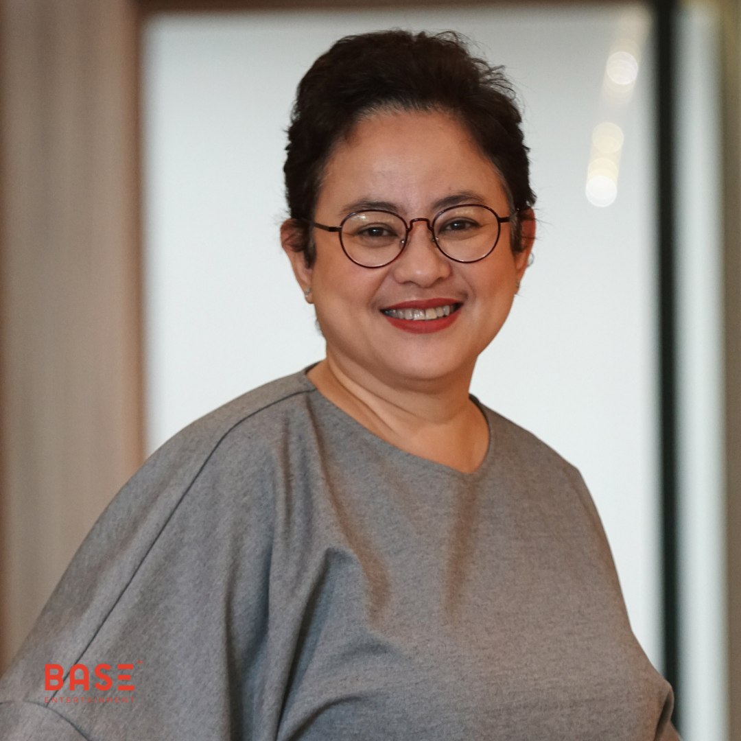 Shanty Harmayn is one of BASE Entertainment founders. Photo is taken at press gathering announcing the collaboration between BASE Entertainment with Dian Sastrowardoyo, one of the most prominent Indonesian actors.